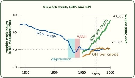 Weekly working hours in US manufacturing - Gross Domestic Product (GDP) - Genuine Progress Indicator (GPI)